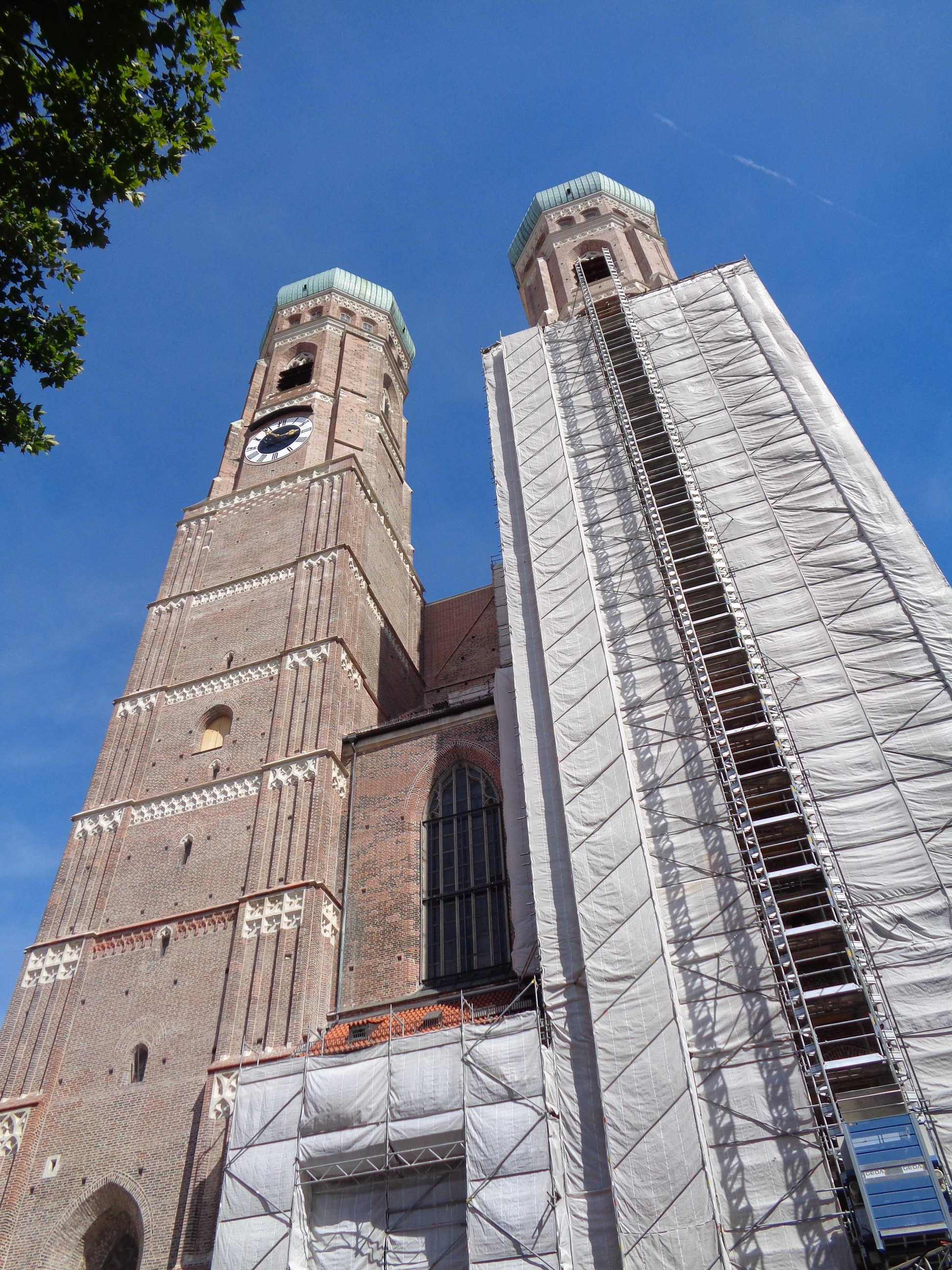 Belltowers of the "Frauenkirche" cathedral, Munich, Bavaria, Germany